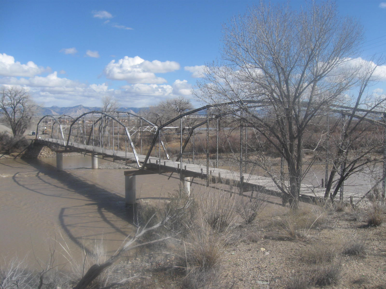 Taken of the Historic Bridge in Fruita, Colorado looking east along the Colorado River